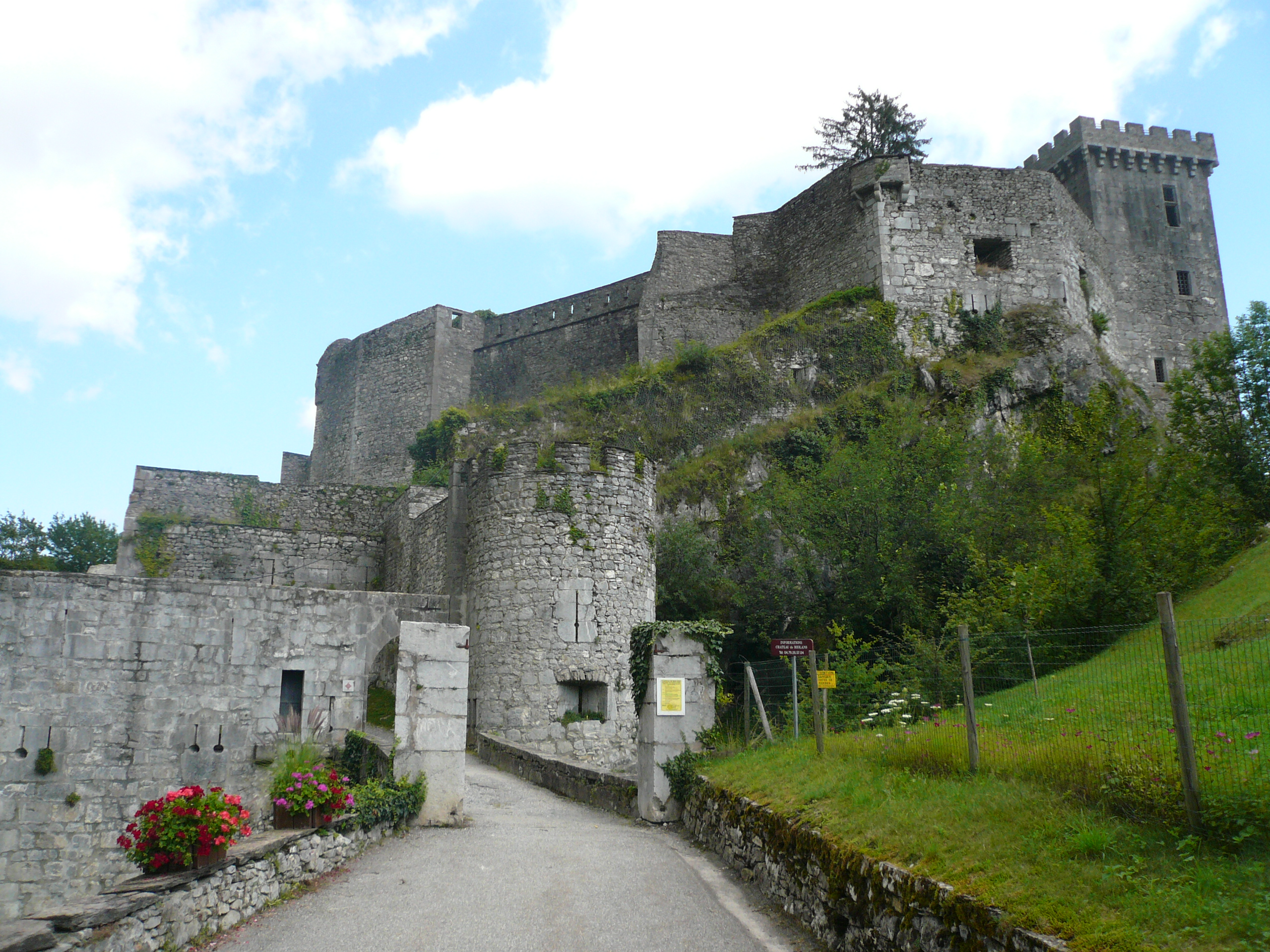 View of the castle of Miolans from its access way (in Saint-Pierre-d'Albigny, Savoy, France) .